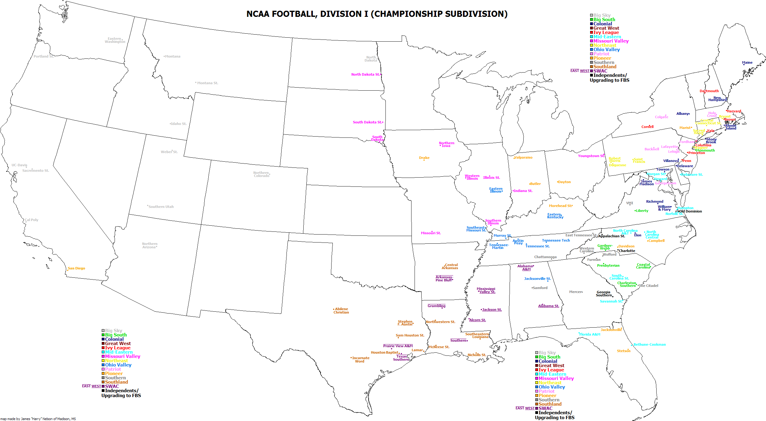 A map of all FCS conferences, updated for 2012. Will delete FBS upgrades when they are officially playing football in their new FBS conferences and after we update the FBS map.